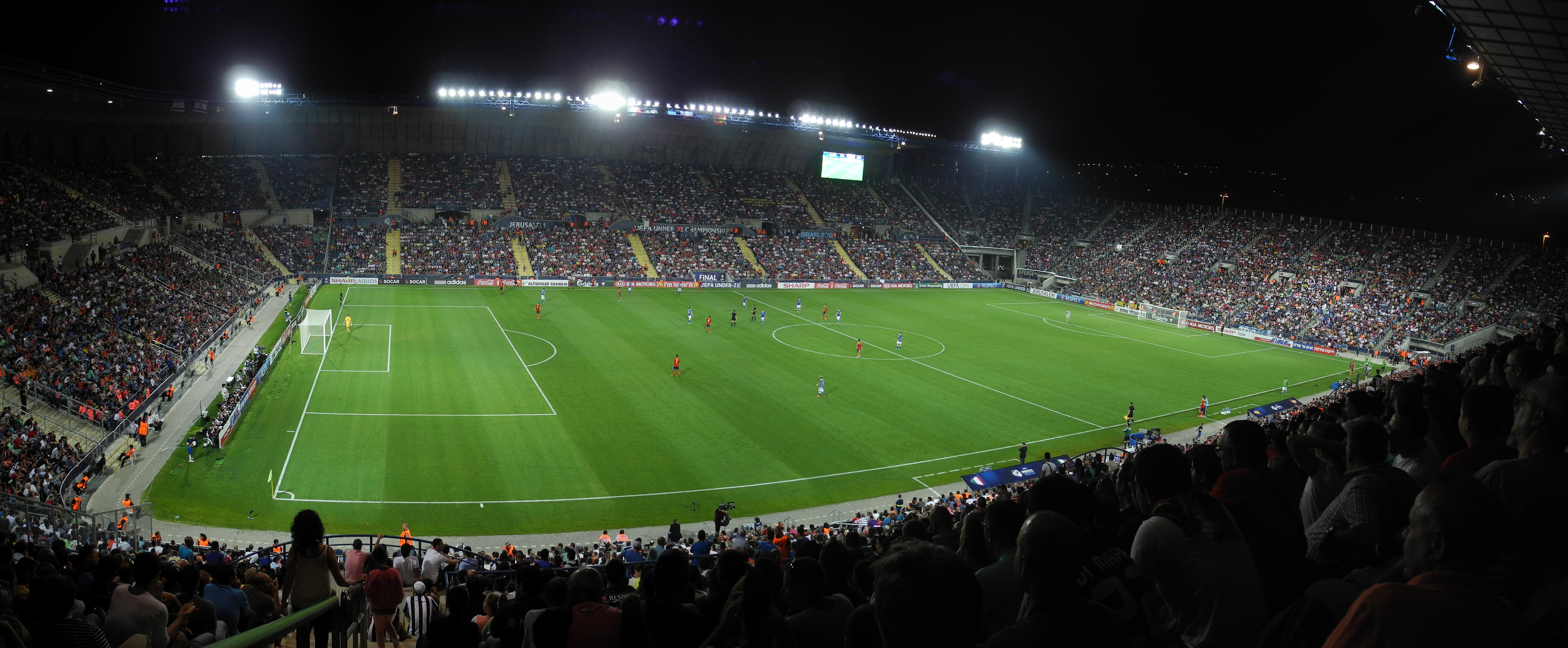 Teddy Stadium interior, Jerusalem during UEFA U21 final match between Spain and Italy